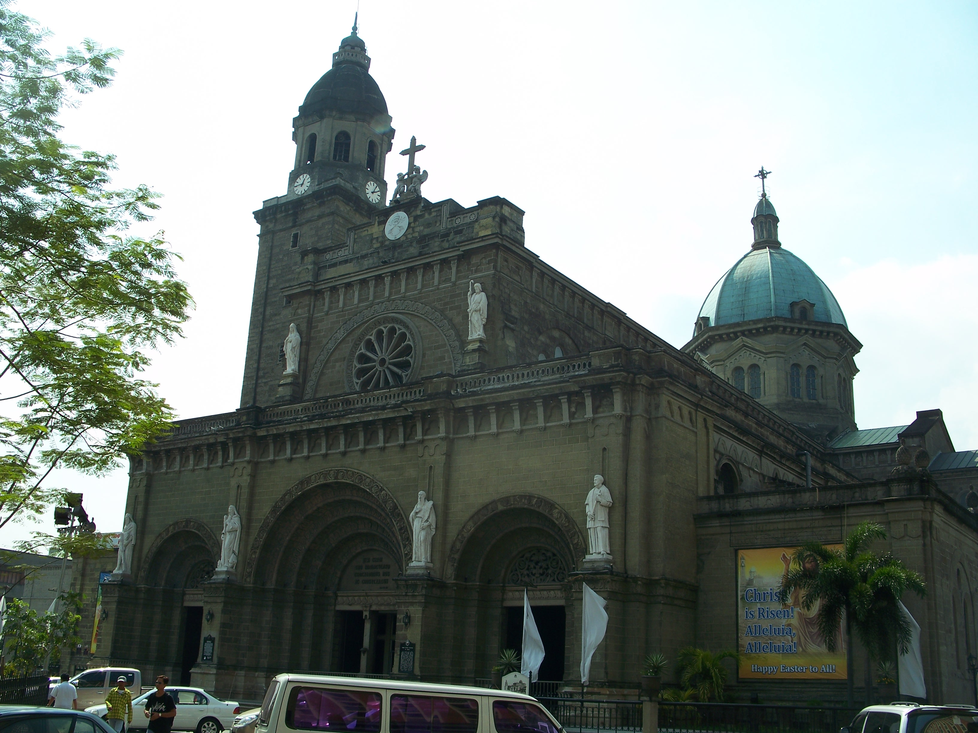 The front façade of the Manila Cathedral.